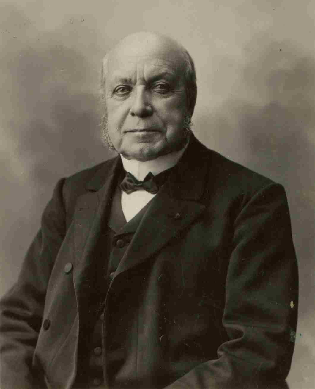 Leon Harmel